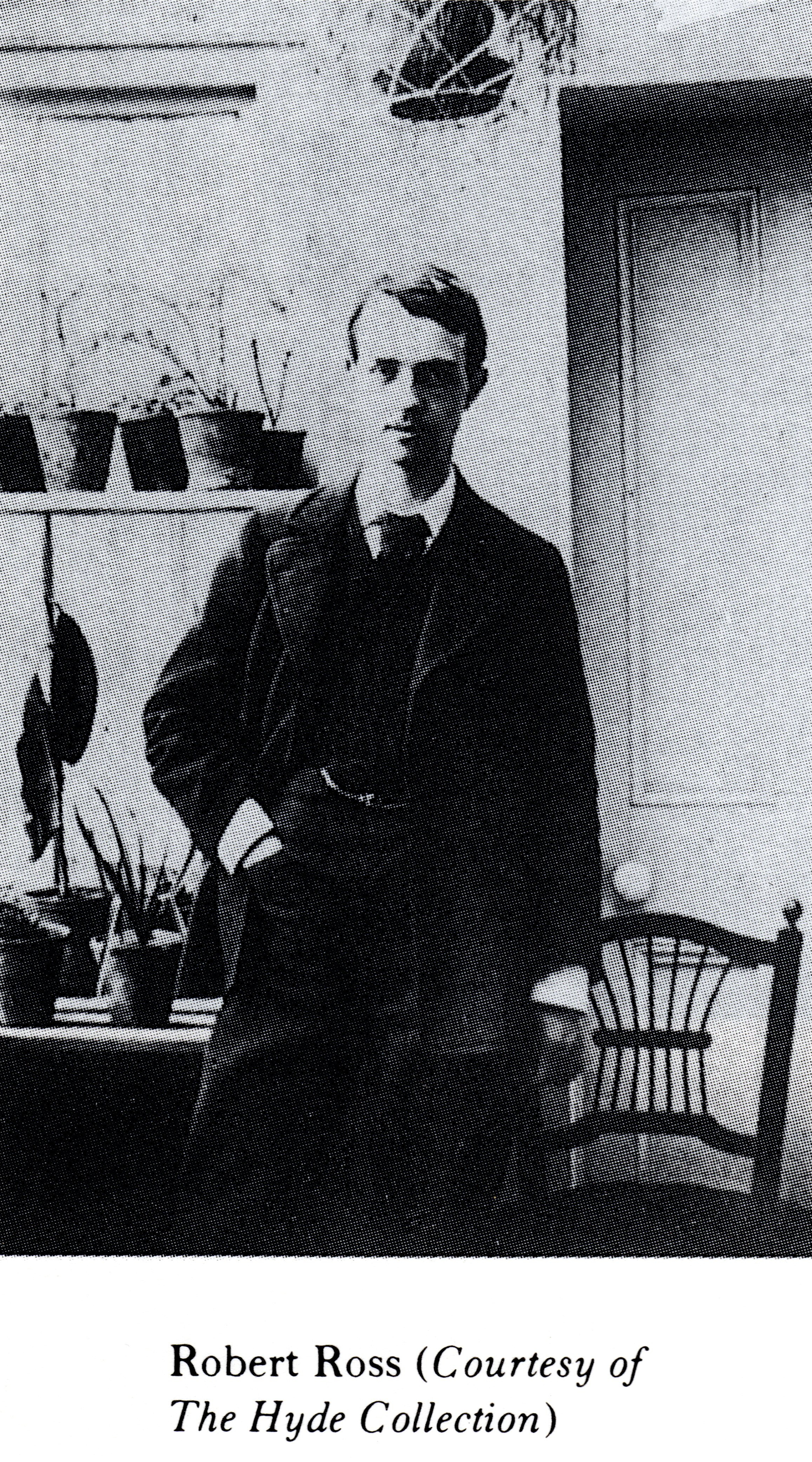 Robert Baldwin Ross